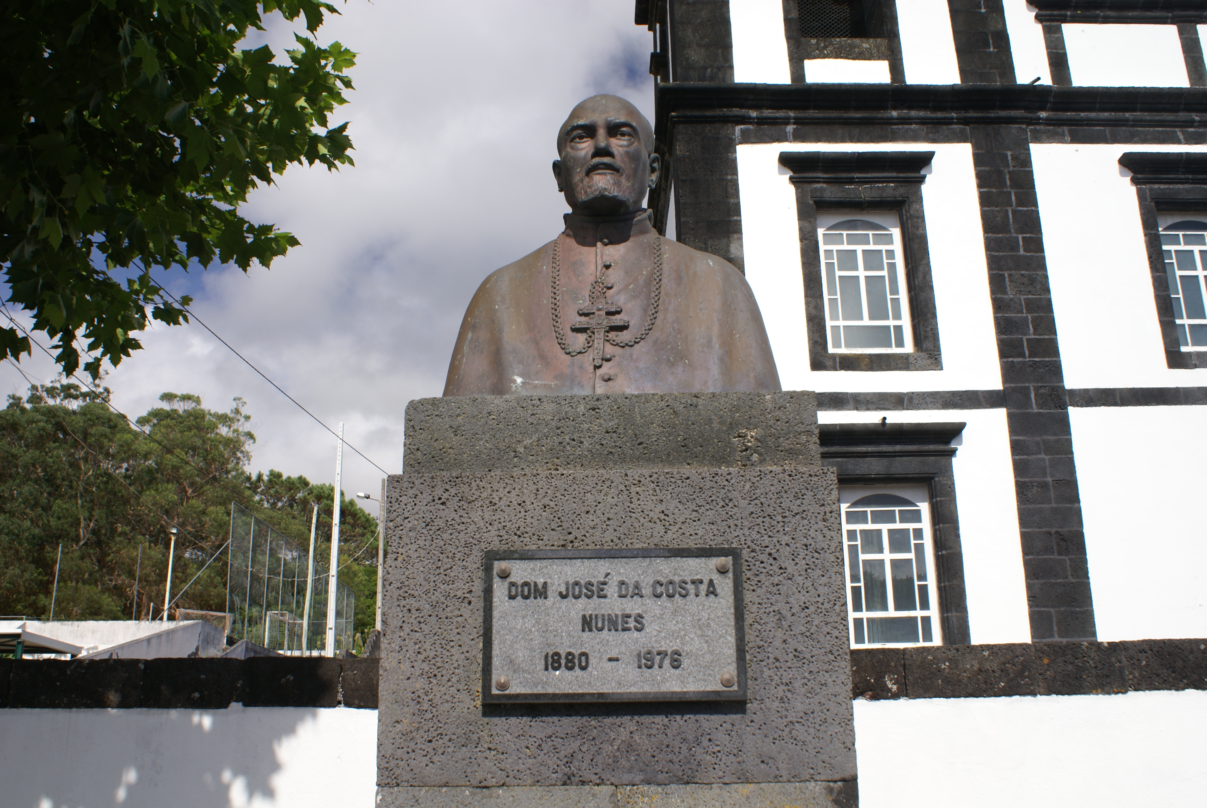 D. José da Costa Nunes, busto existente junto à Igreja de Nossa Senhora da Candelária, concelho da Madalena do Pico, ilha do Pico, Açores, Portugal